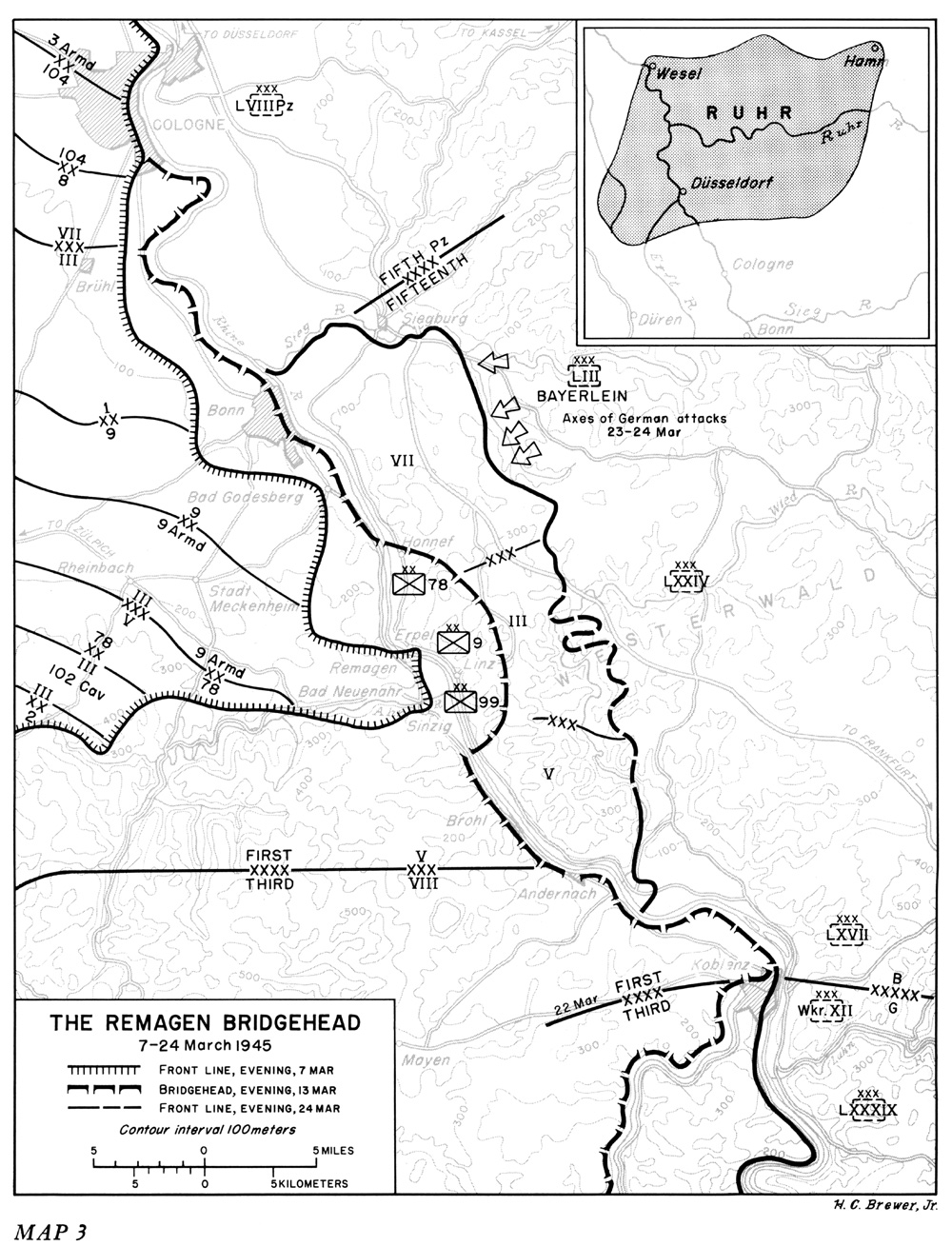 "The Remagen Bridgehead 7-24 March 1945" by H.C. Brewer Jr., from MacDonald, Charles B. (1973). US Army in WW II: The Last Offensive (CMH Pub 7-9-1). Washington D.C.: Center for Military History, Government Printing Office.